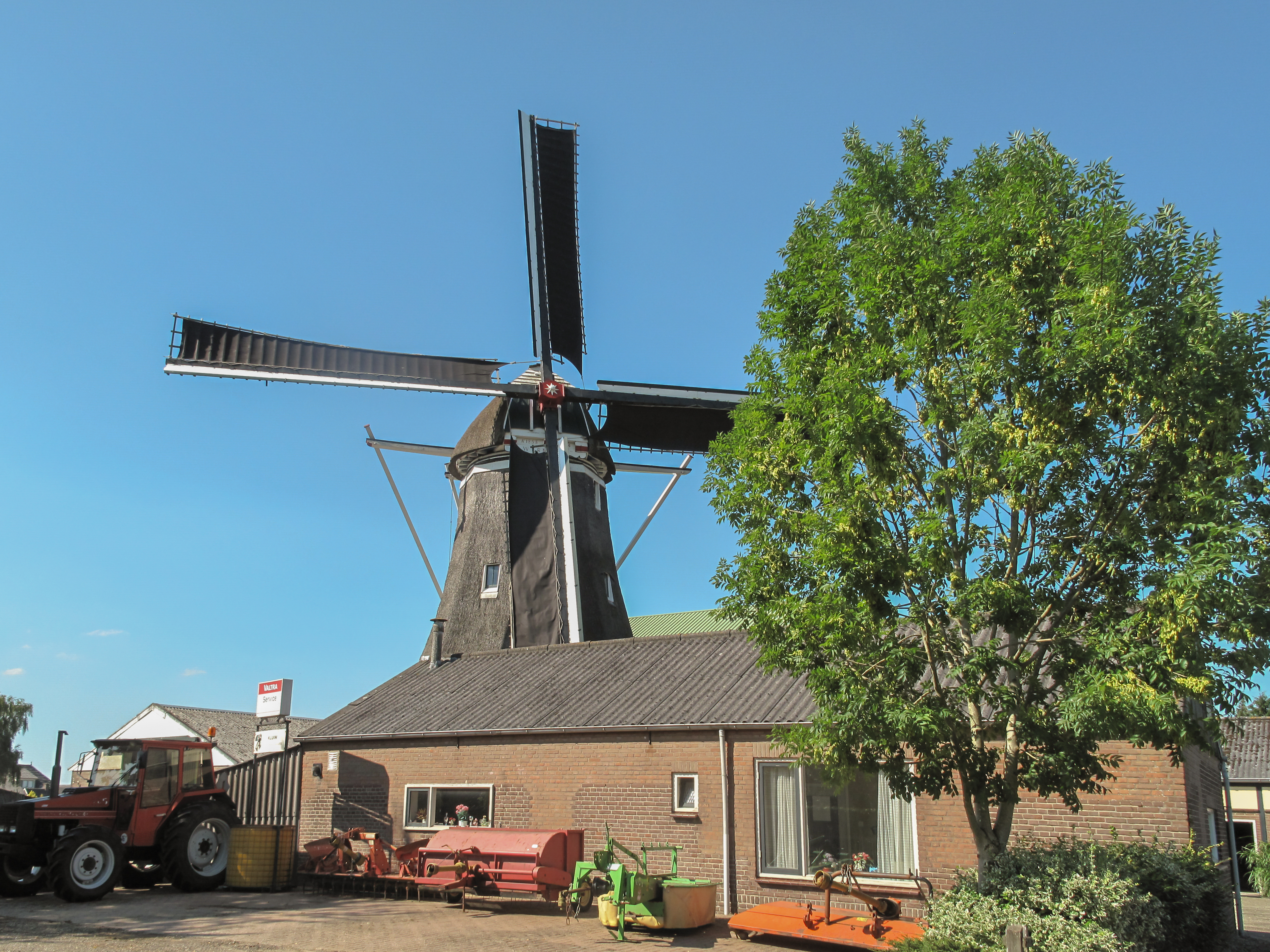 Oene, windmill: korenmolen de Werklust